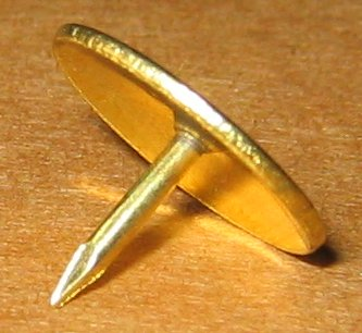 A brass thumbtack.